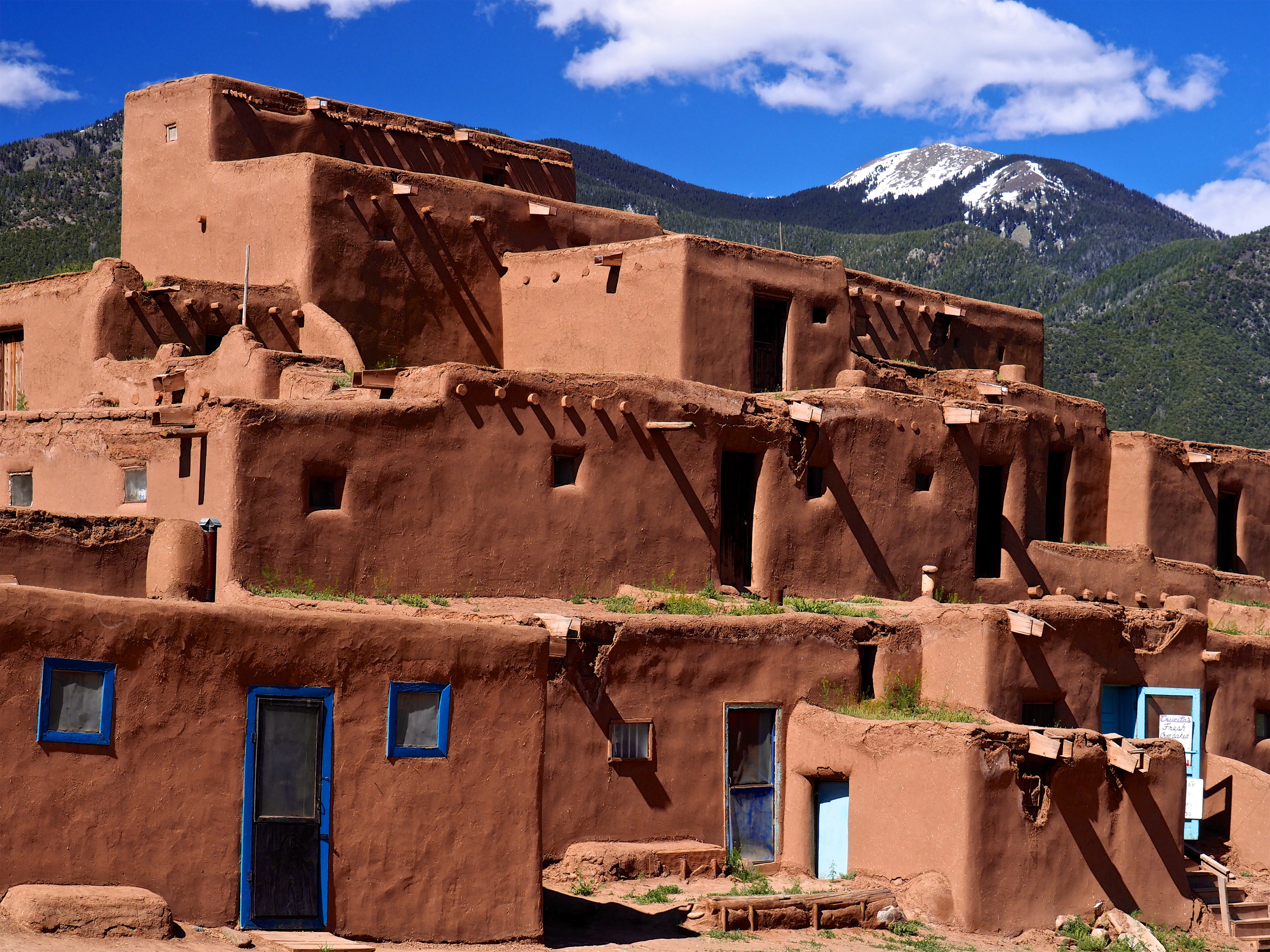 Multi-level adobe dwelling, Taos Pueblo, Taos New Mexico United States